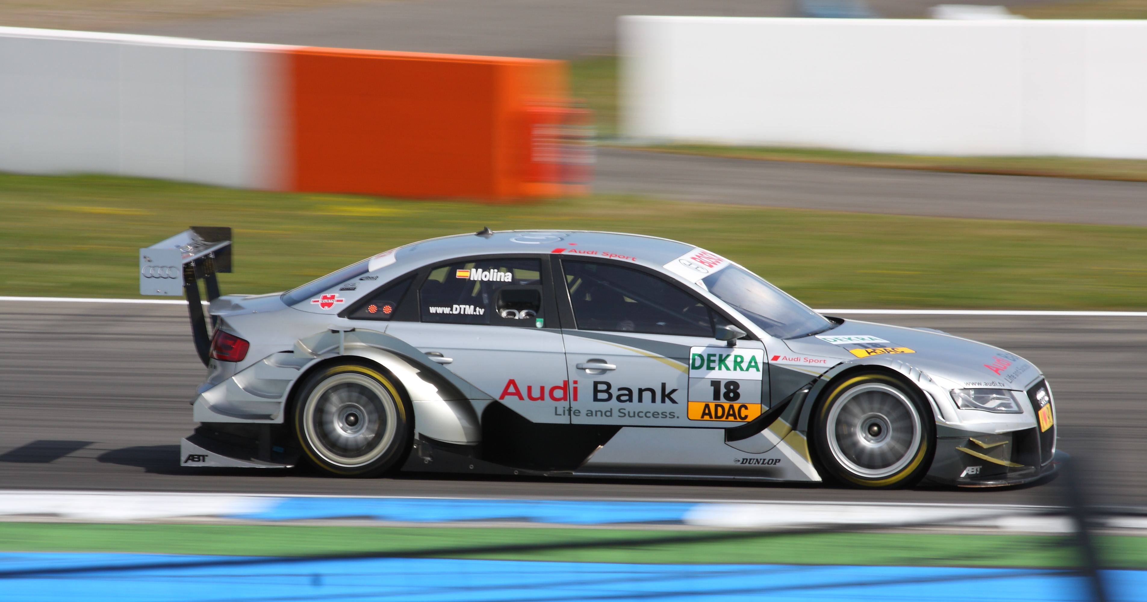 DTM Audi A4, Miguel Molina (driver)